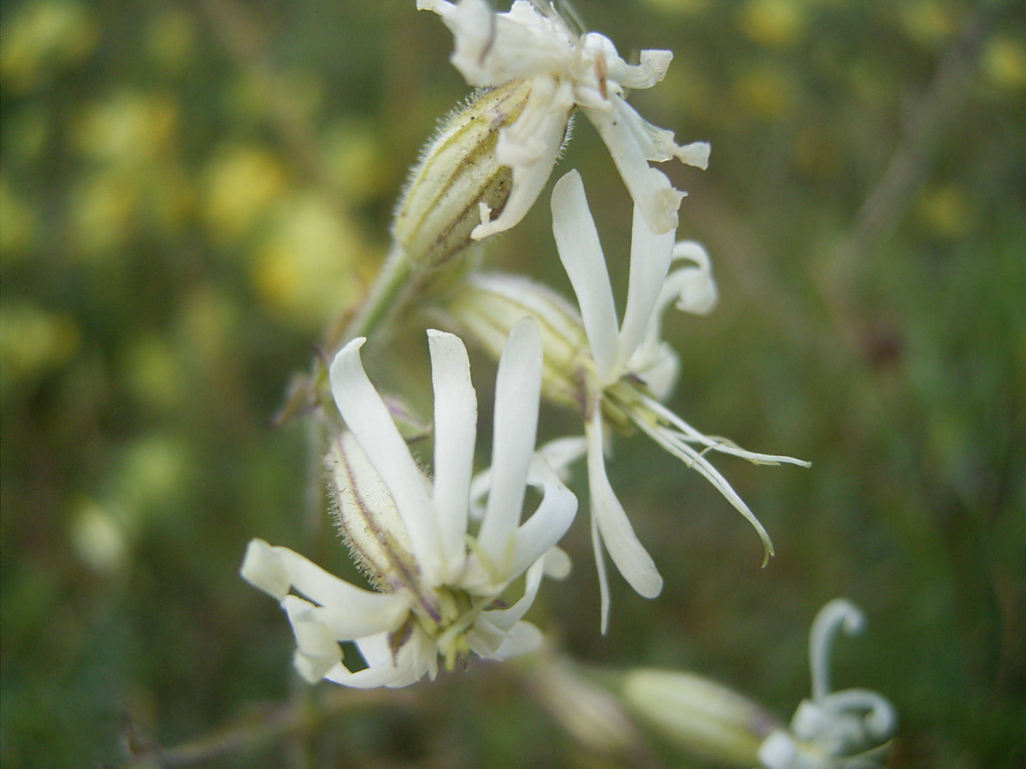 This photo shows the flower of Silene nutans. I took this pic on Jun 4, 2005 in the dunes of Katwijk, Netherlands.